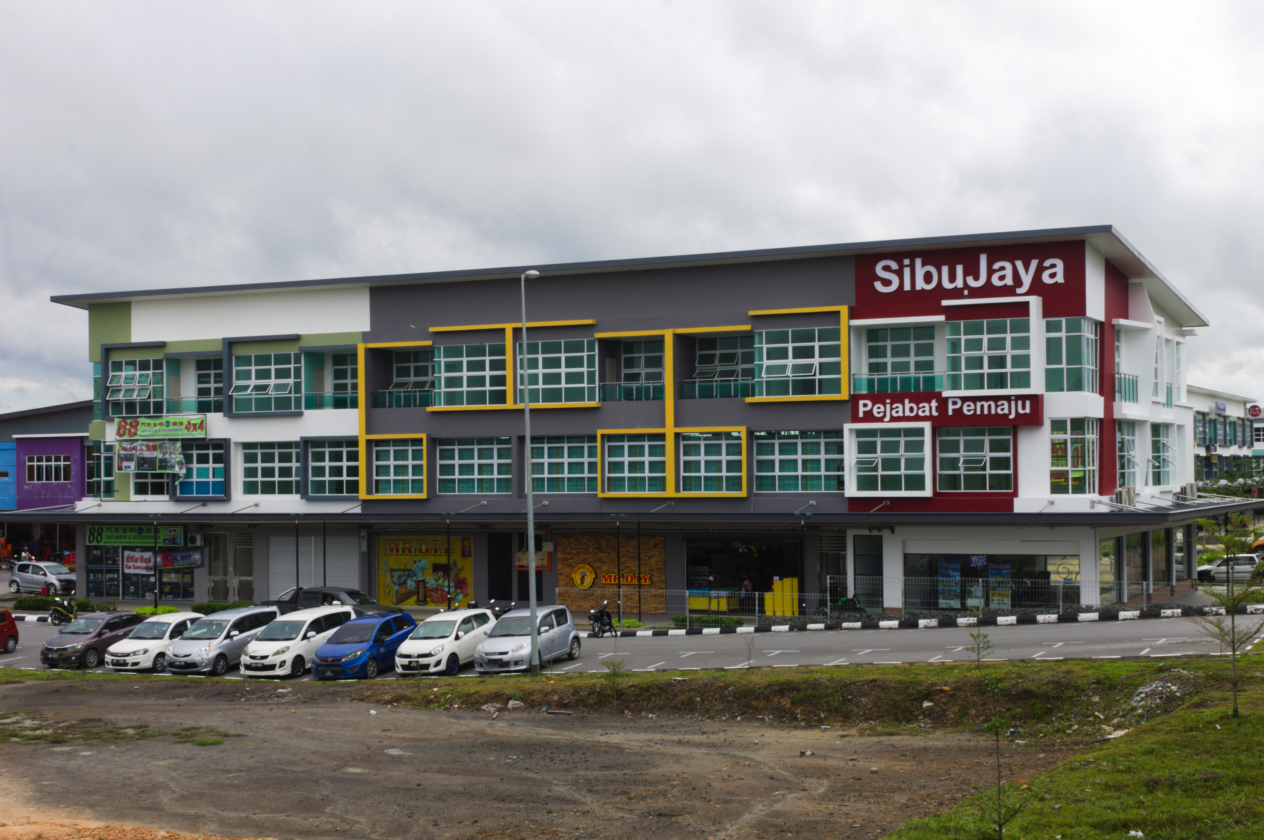 Sibu Jaya shophouses 2